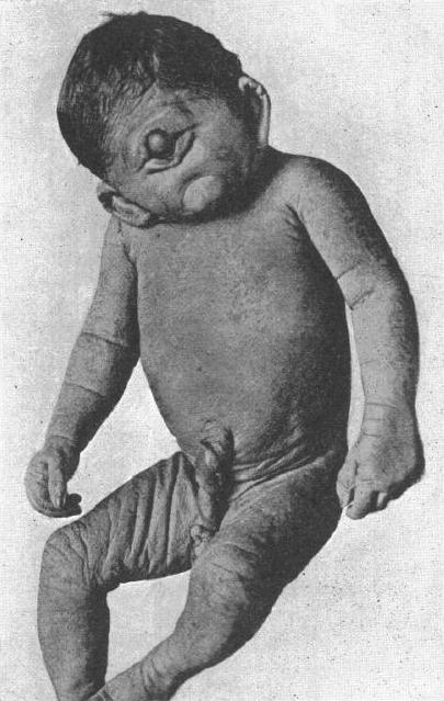 Photograph of foetus with cyclopia